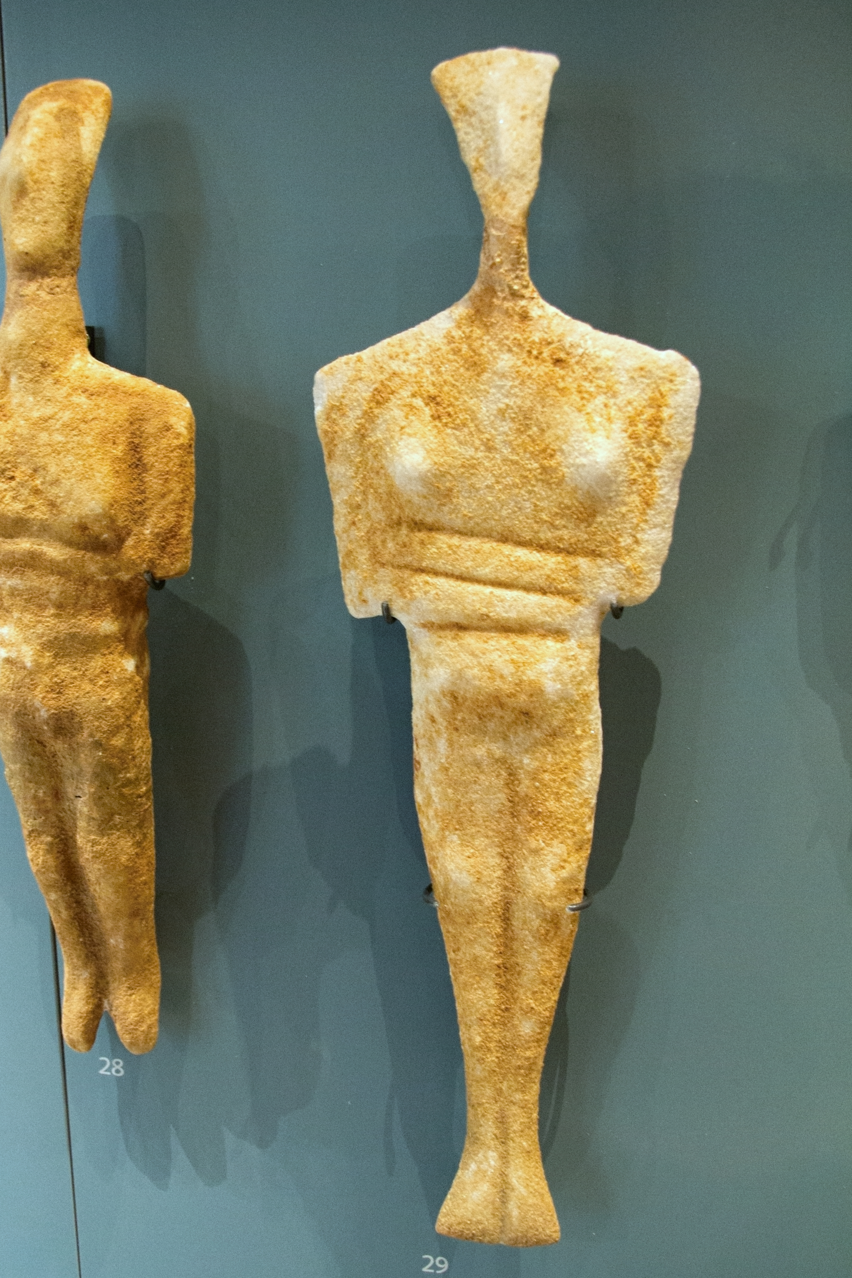 Cycladic female figurine, Dokathismata variety, marble. Said be from Amorgos. Early Bronze Age, EC II, 2800 – 2300 BC. Ashmolean Museum.